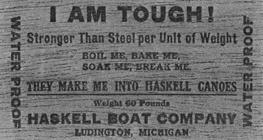 Business card of Henry L. Haskell